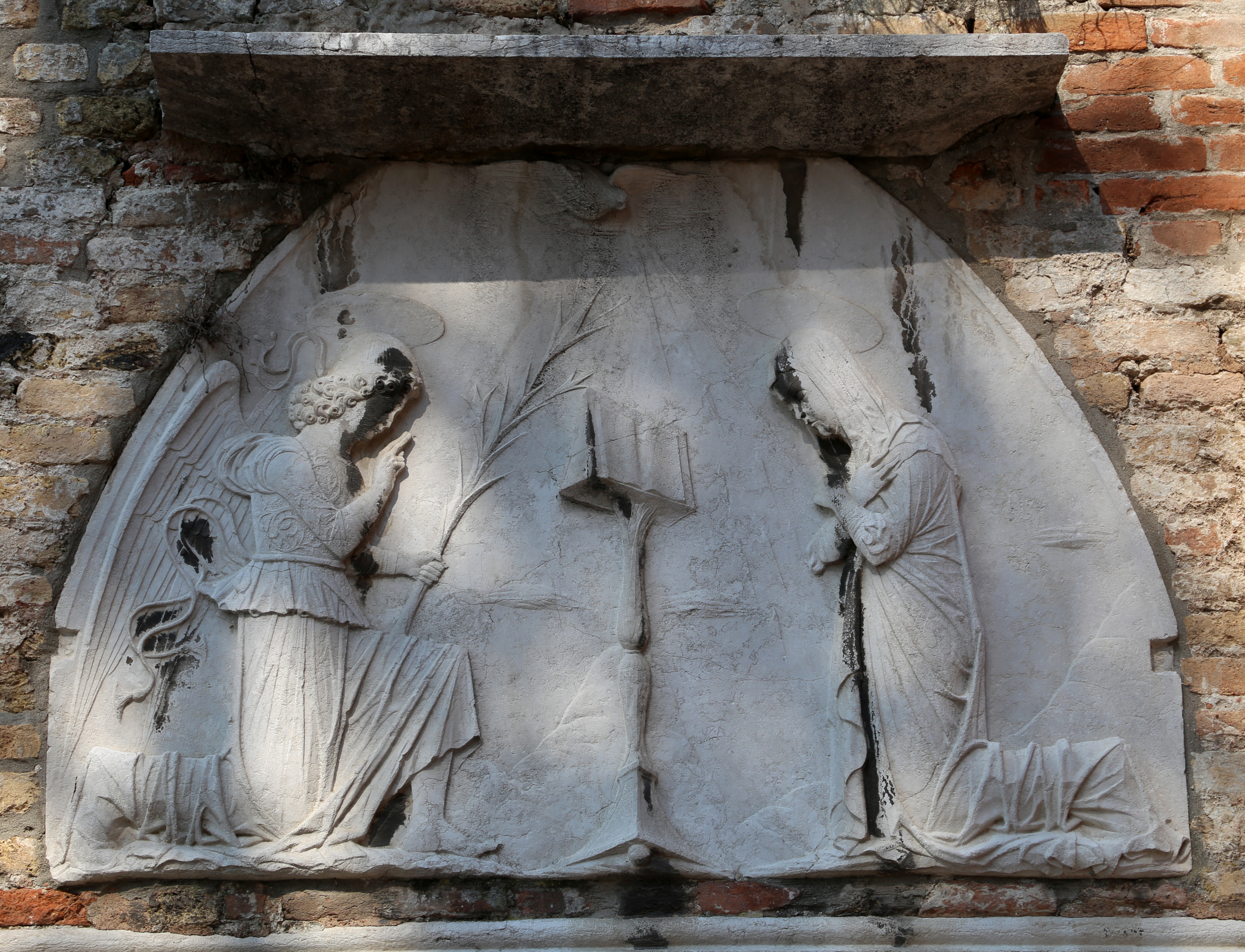 Santa Maria degli Angeli (Murano)